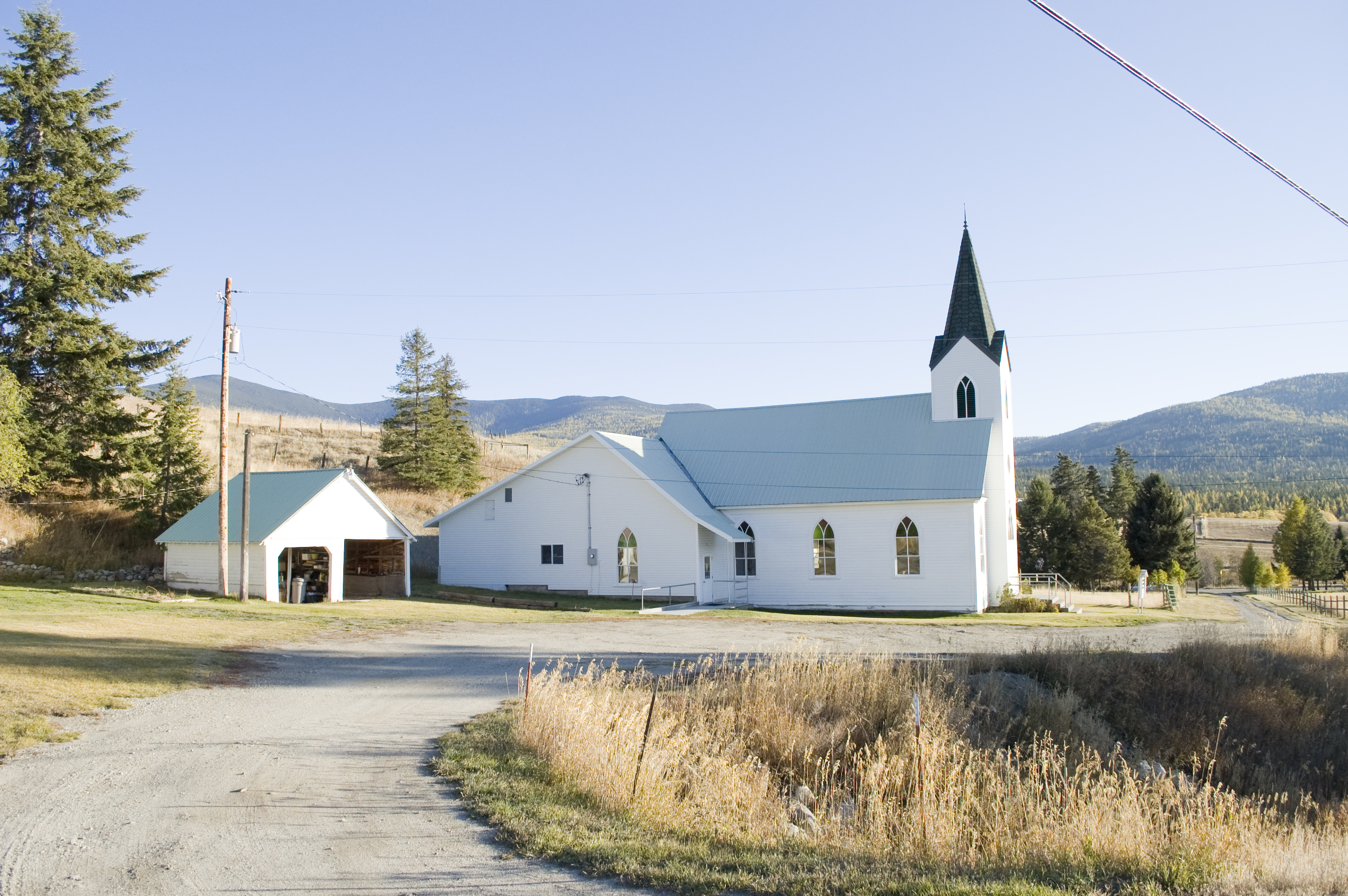 A photograph of a Lutheran Church on the Tonasket Havillah Rd in Havillah, Washington.